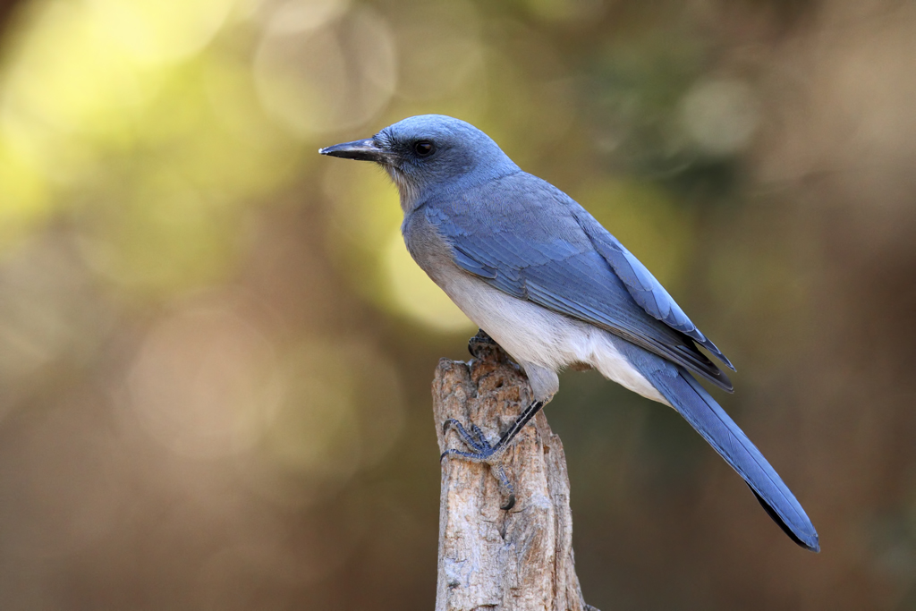 Mexican Jay Aphelocoma wollweberi in Madera Canyon, Arizona. It is very like a Scrub Jay but it does not have the white line over the eye, nor does it have the blue band around the chest. Its back is also not as brown as that of the Scrub Jay